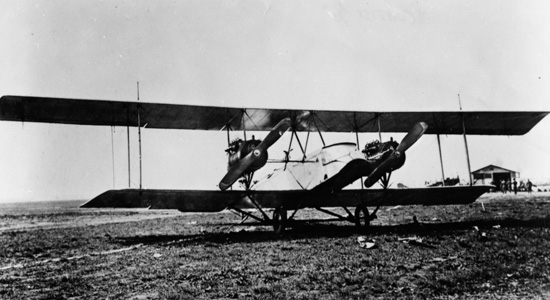 Curtiss Twin JN (JN-5) prototype.